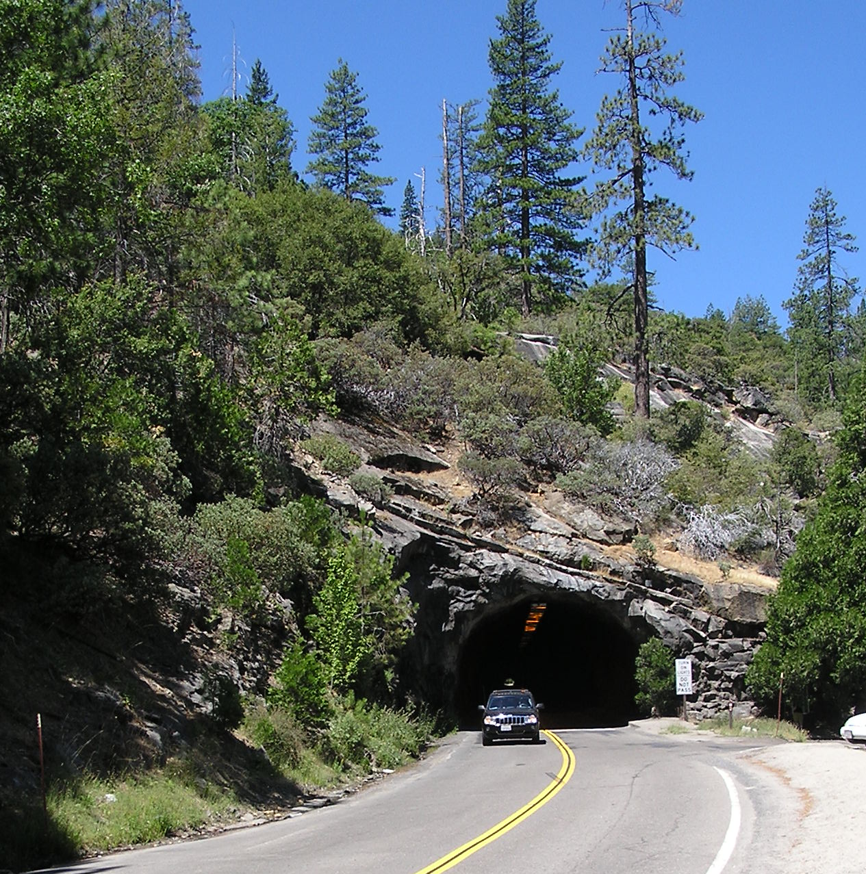 The east portal of the Wawona Tunnel near the eastern terminus of California State Route 41.